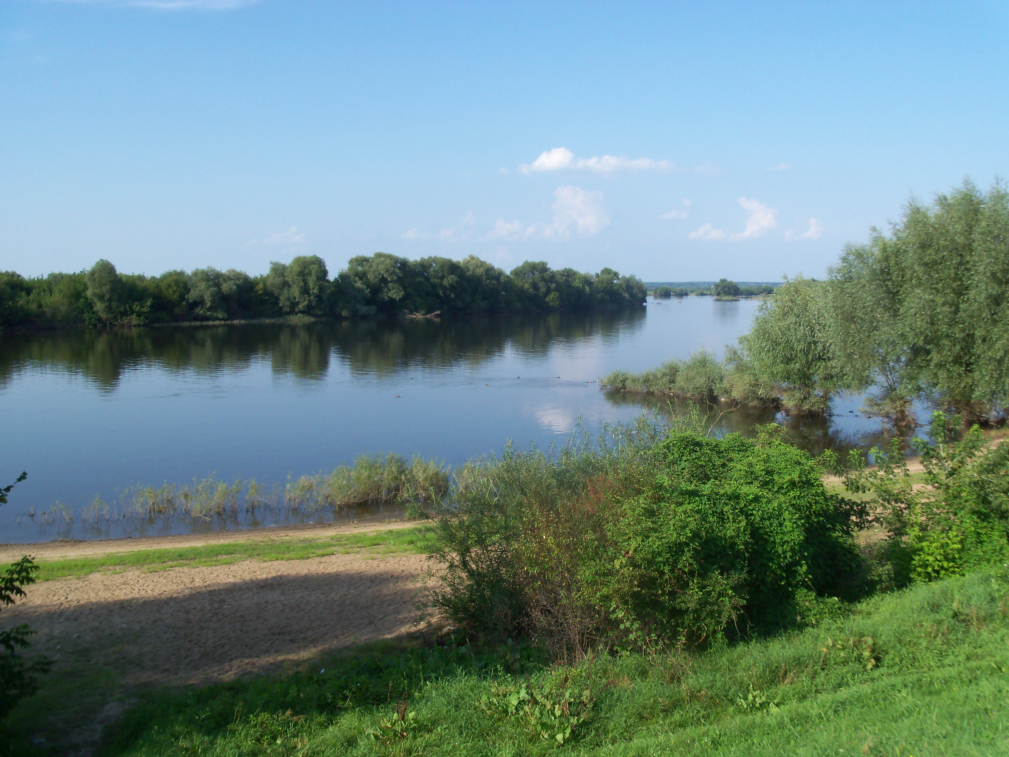 Narew in Nowy Dwór Mazowiecki